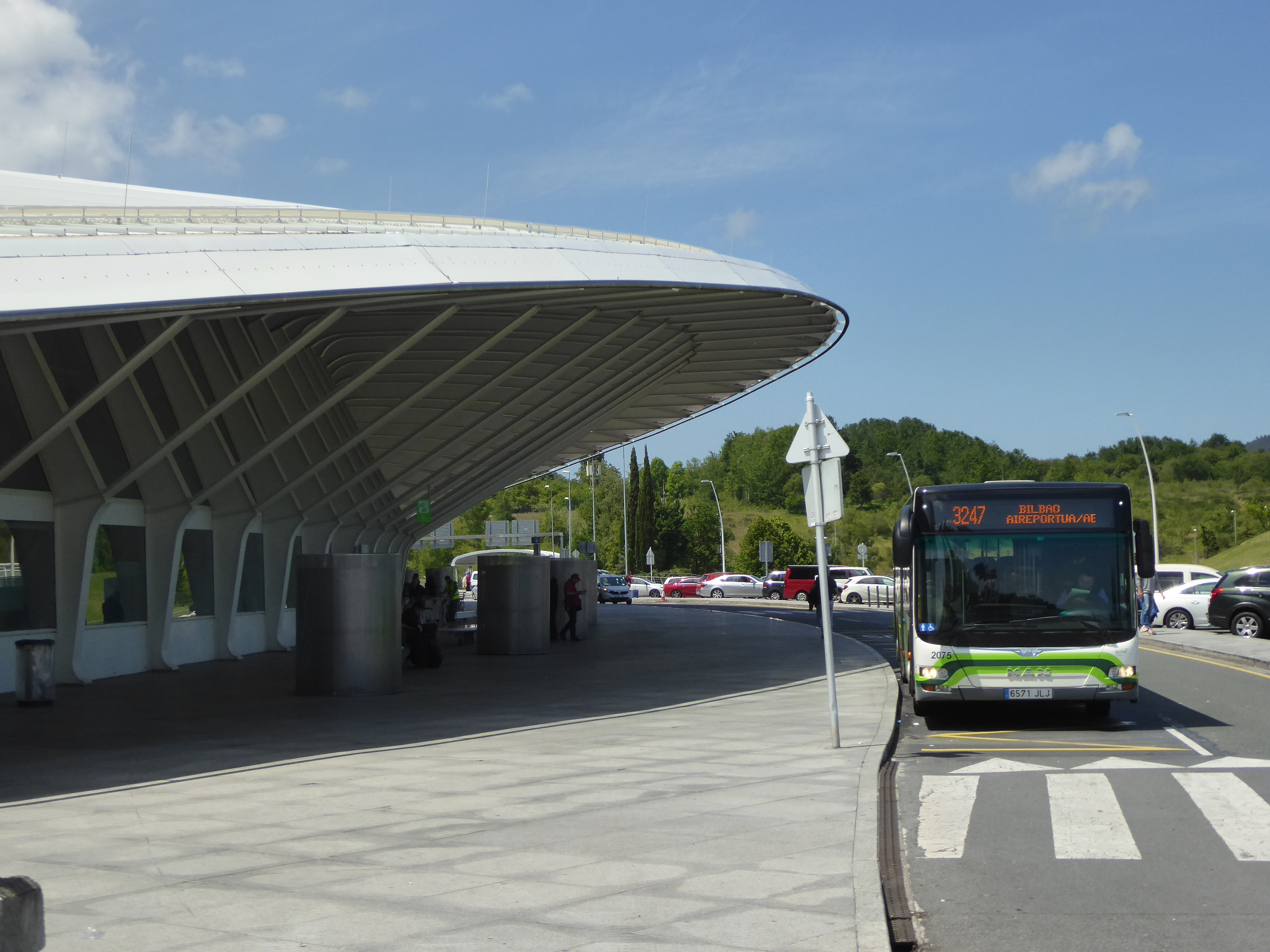 Bilbao Airport terminal, Bilbao, Biscay, Basque Autonomous Community, Spain, May 2019